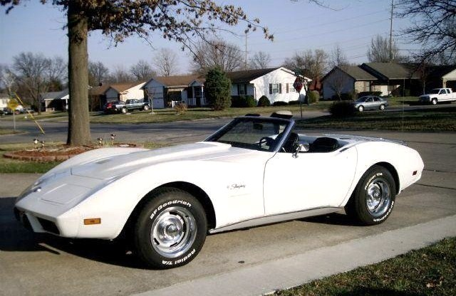 1975 Chevrolet Corvette